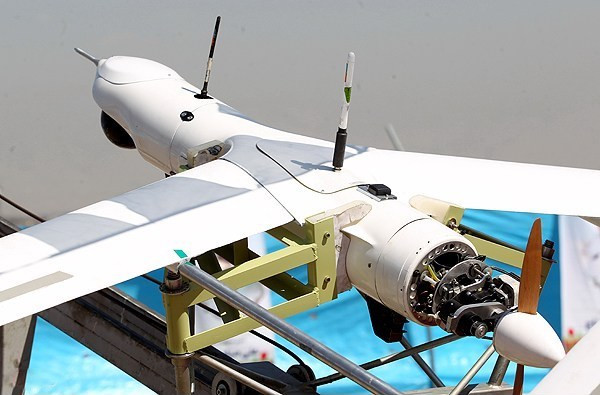 Yasir UAV. The grey patches are shadows.